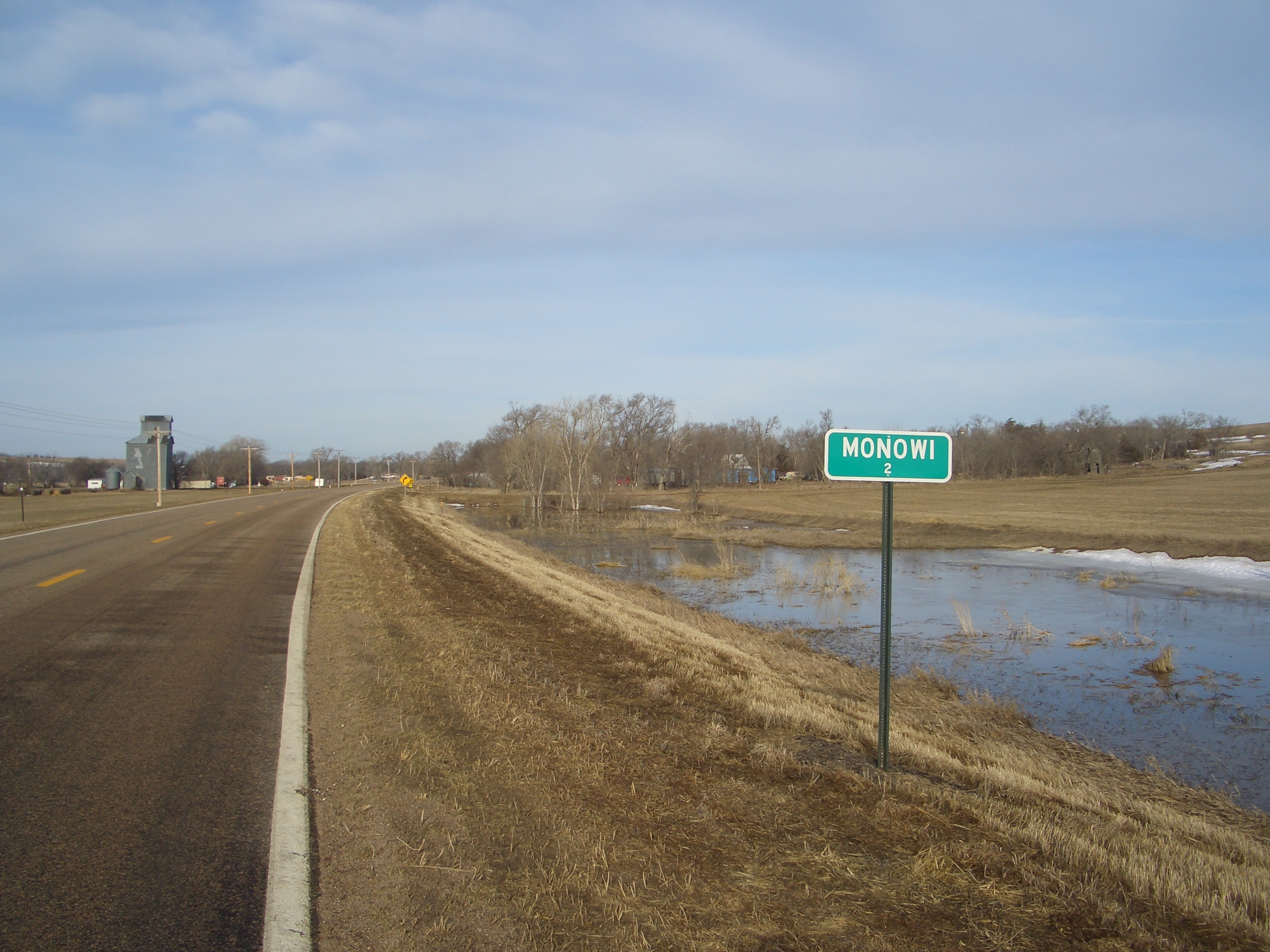 Sign announcing the population (2) of Monowi, Nebraska, USA, seen as one enters the town from the east. Some of the buildings of Monowi are visible in the background.